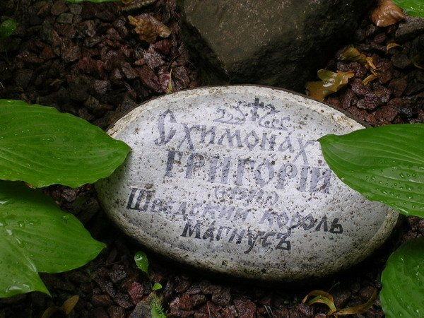 burial place allegedly of a King Magnus of Sweden, in the Valaam monastery